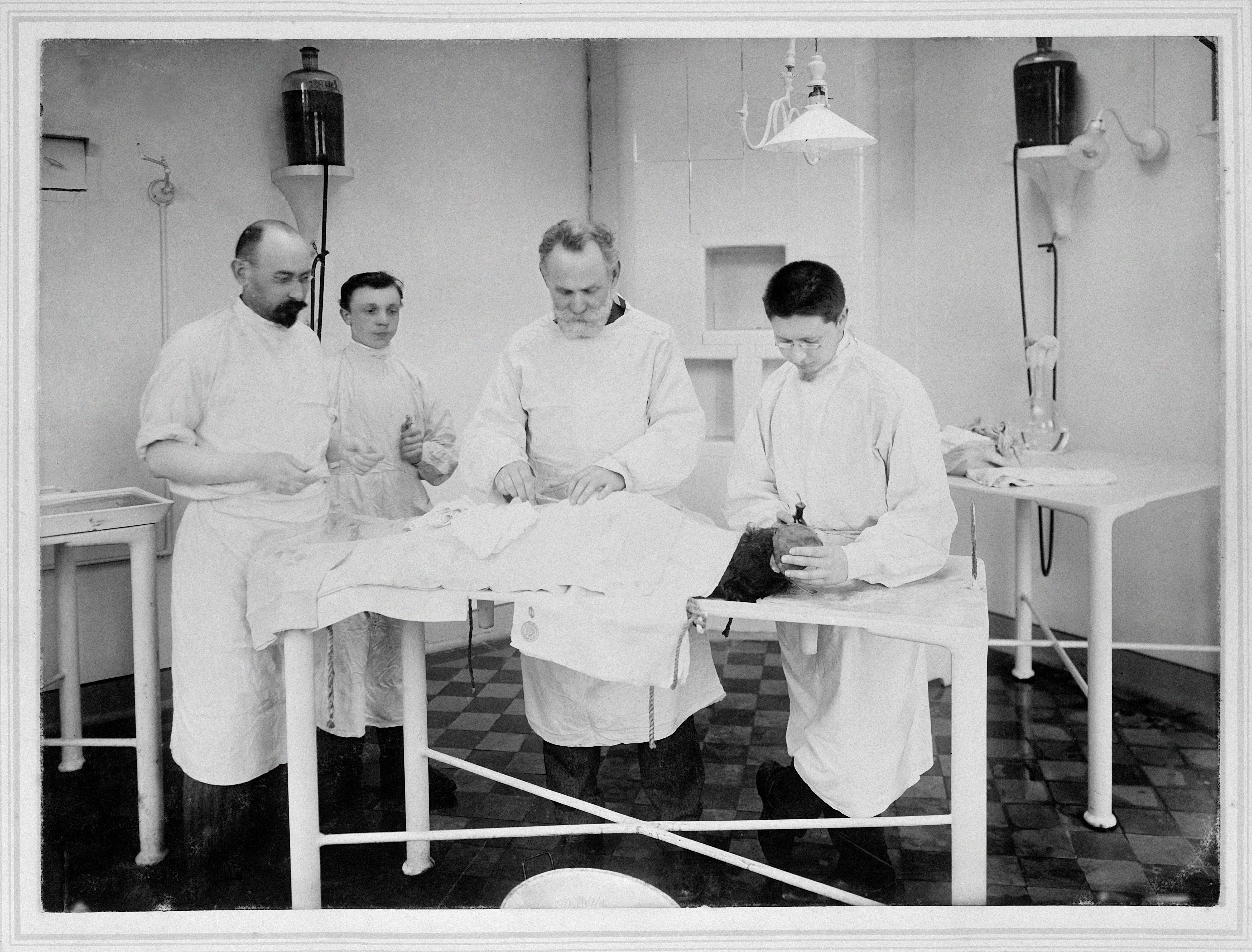 I.P. Pavlov with three colleagues operating on a dog in the Physiology Department, Imperial Institute of Experimental Medicine, St Petersburg. Left to right: A.P. Sokolov, I.V. Shuvalov, I.P. Pavlov, J.A. Buchschtab Iconographic Collections Keywords: Ivan Petrovich Pavlov